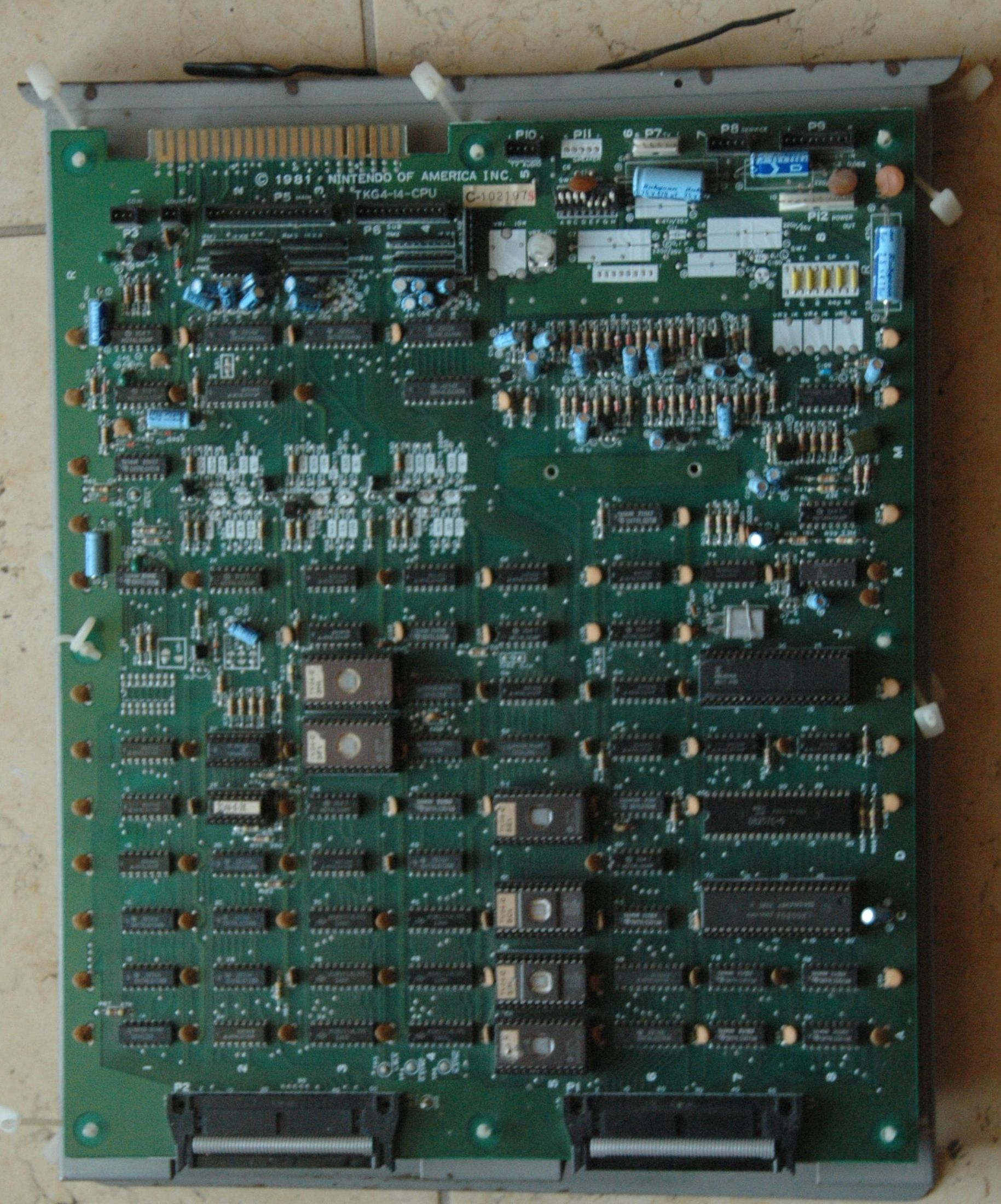 Nintendo Donkey Kong main board